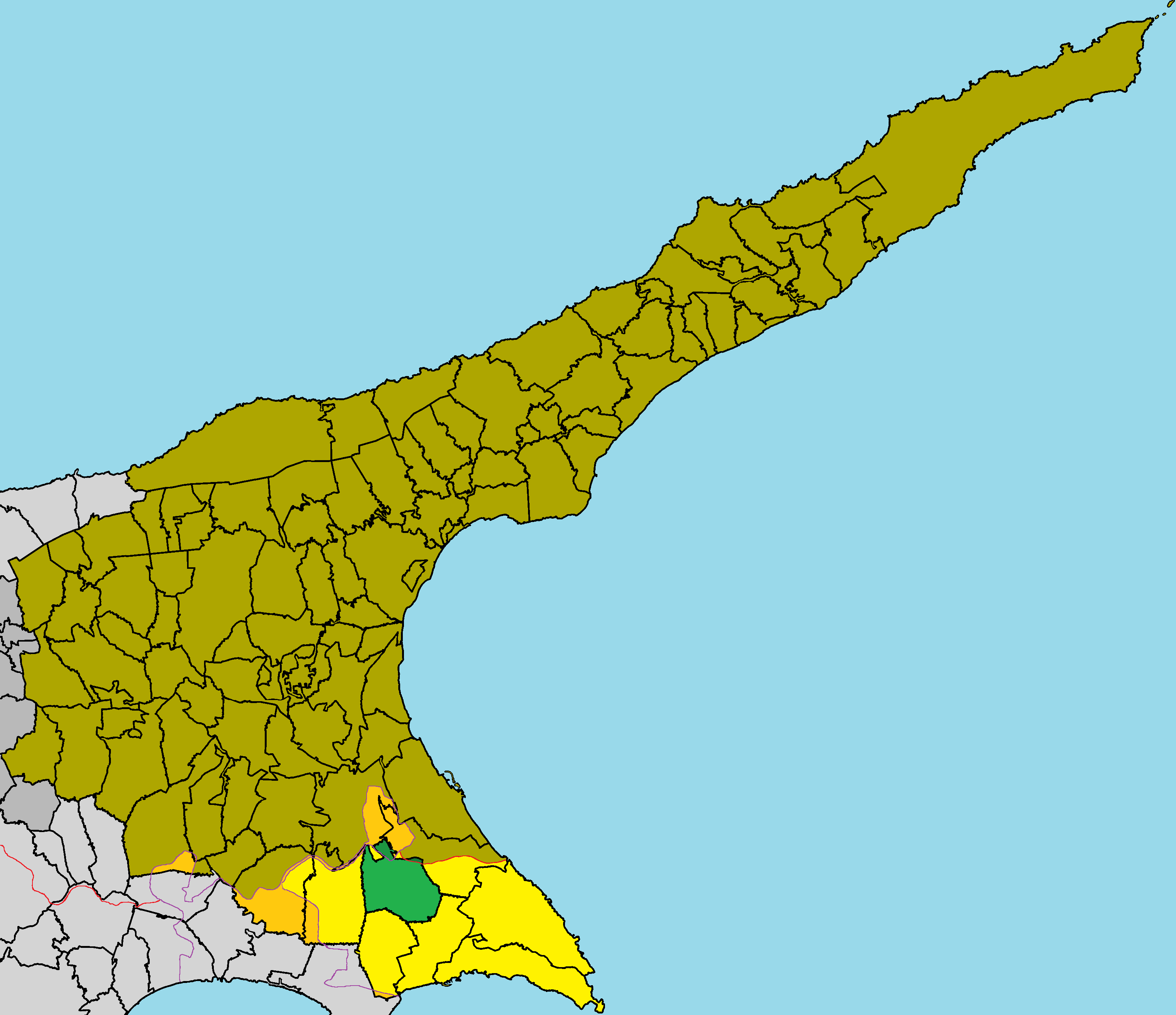 Frenaros in Famagusta District.